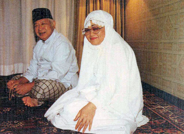 President Suharto and his wife, Ibu Tien in Muslim attire after performing hajj